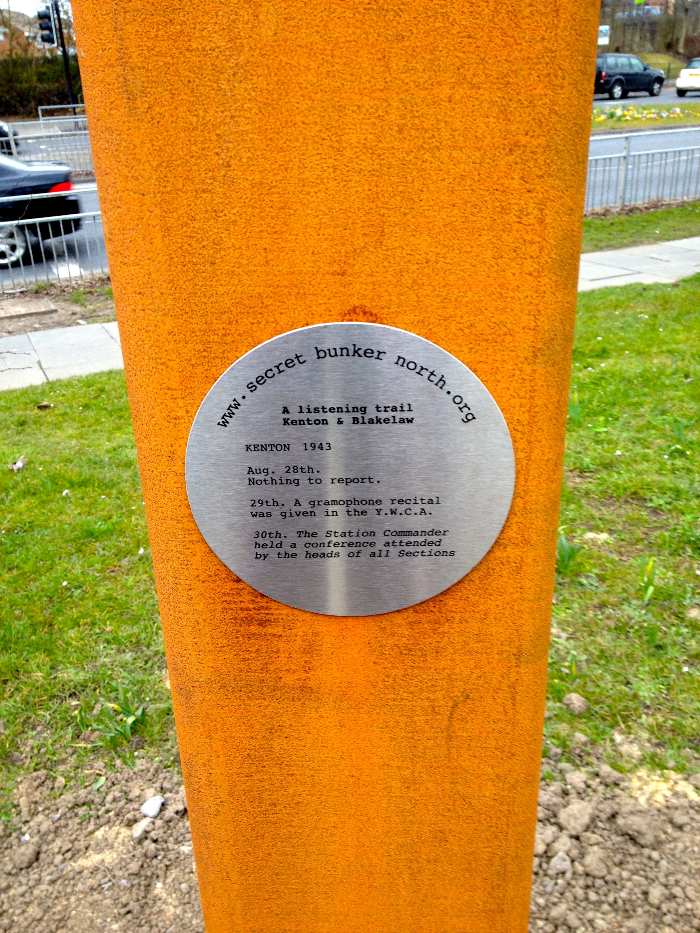 Plaque commemorating Secret Bunker North